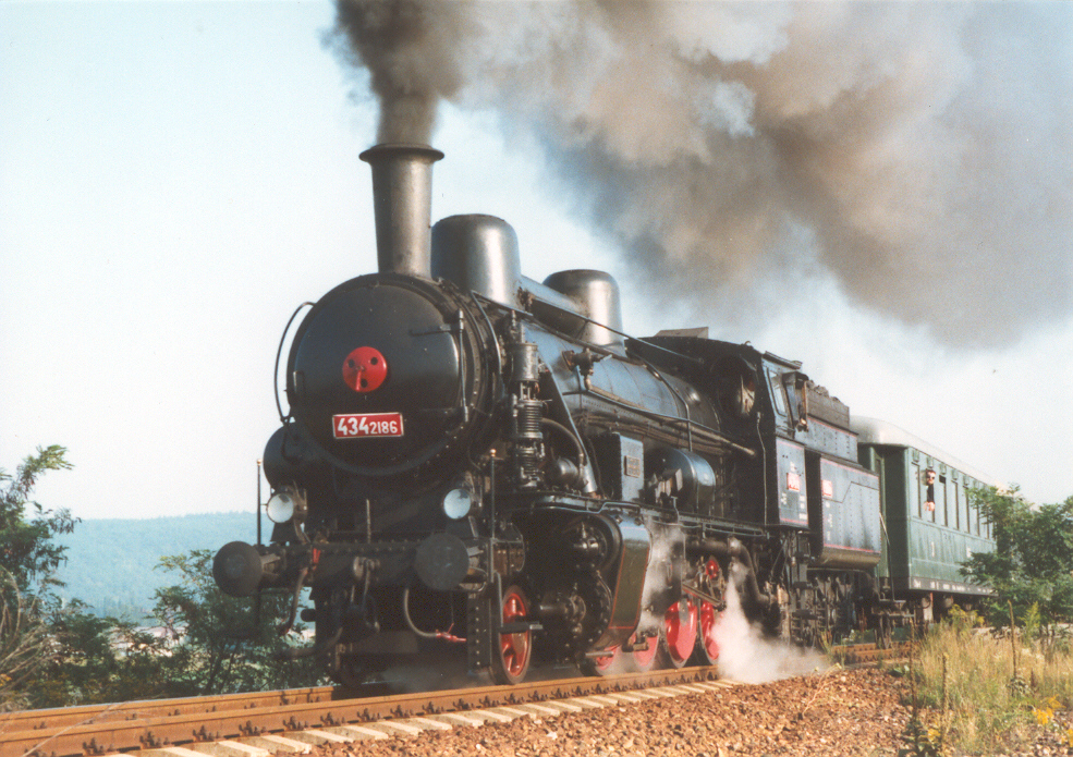 Steam locomotive class 434.2 (concretely 434.2186) is going through Praha-Modřany railway stop.